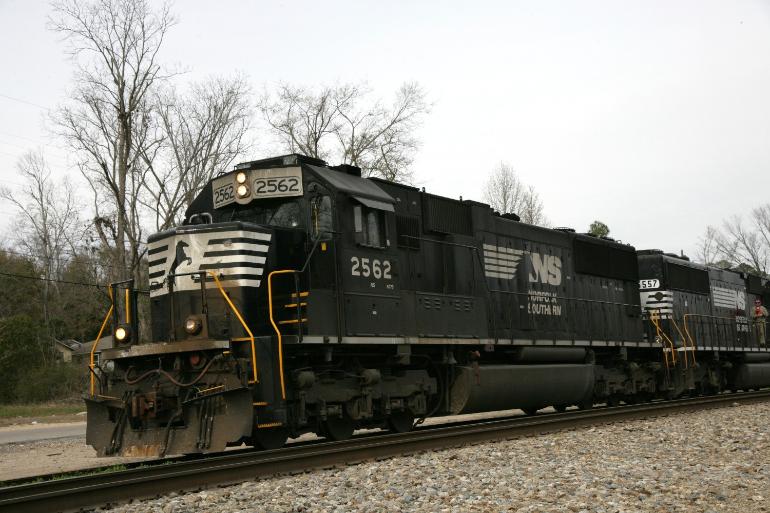 Norfolk Southern SD70